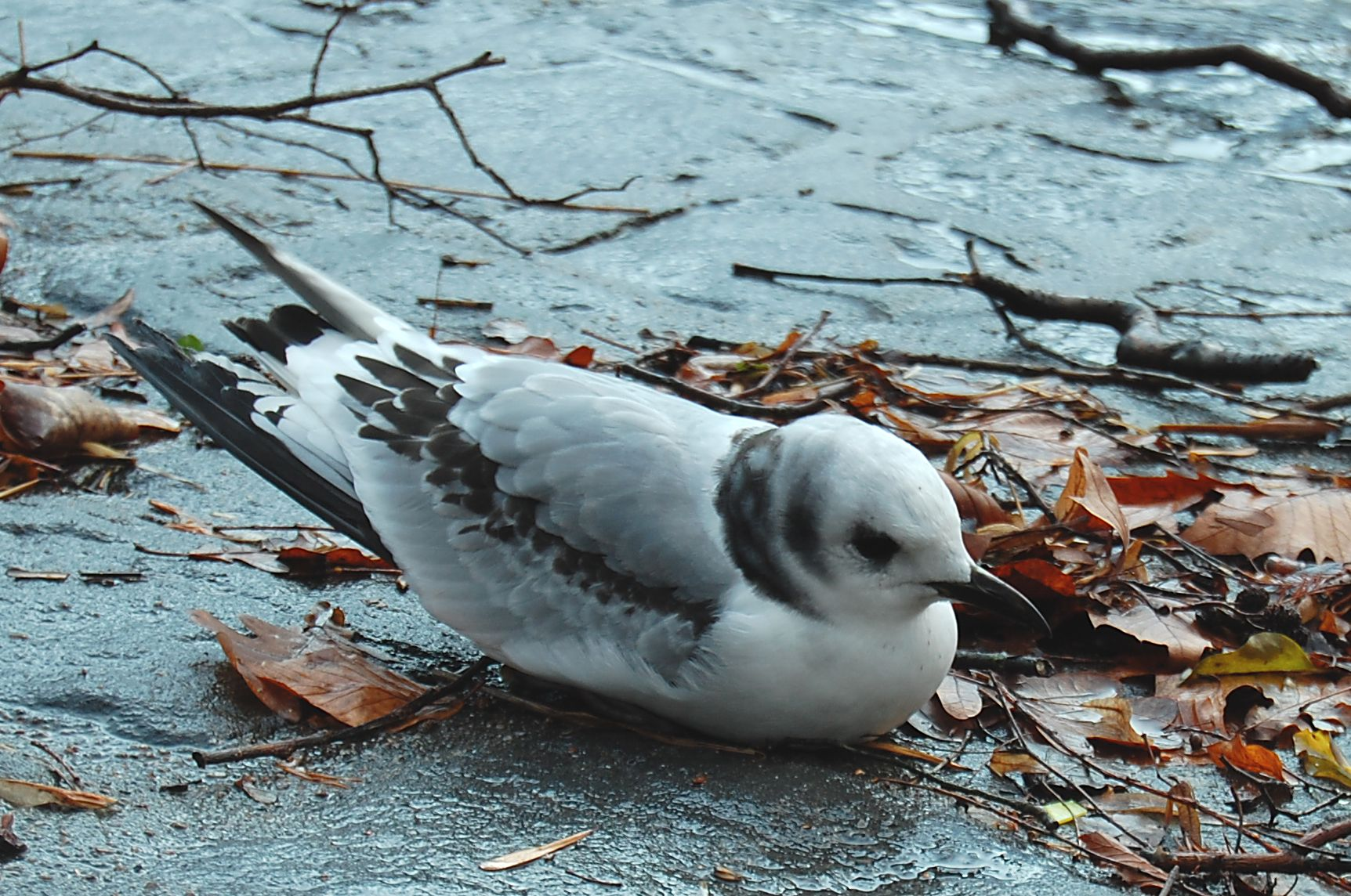 Rissa tridactyla, 1. Winter